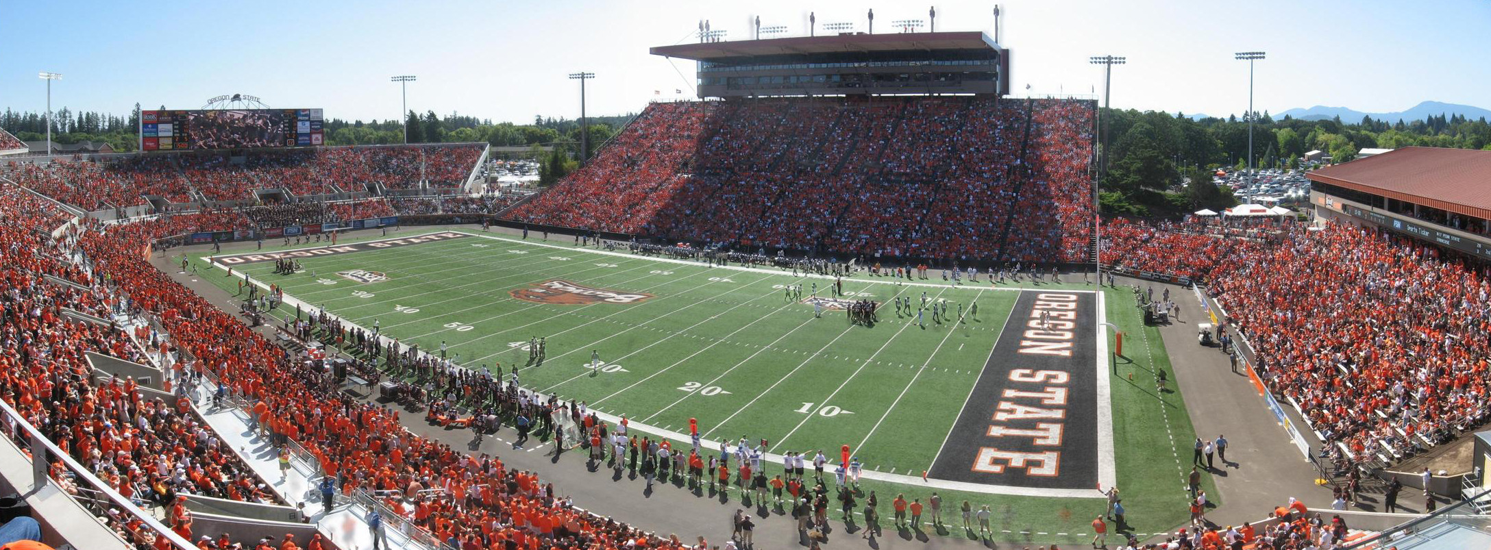 Panorama of Reser Stadium during 2008 home game against Hawaii.